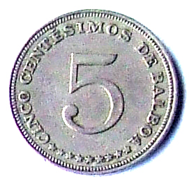 five cent of balboa